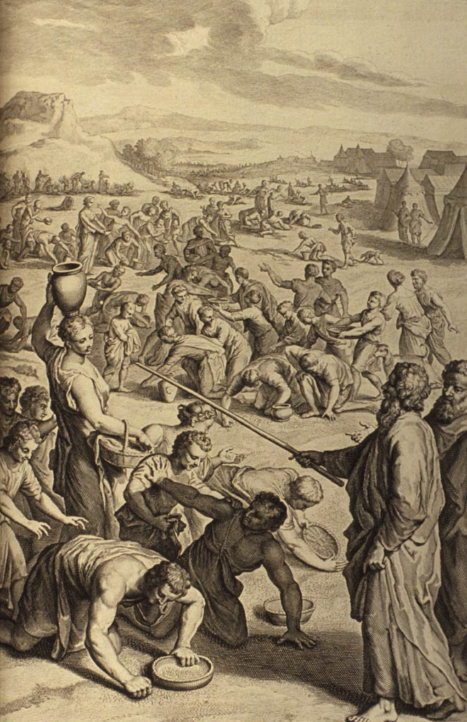 The Israelites gather Manna in the Wilderness, as in Exodus 16:14-22: "And when the dew that lay was gone up, behold, upon the face of the wilderness there lay a small round thing, as small as the hoar frost on the ground. And when the children of Israel saw it, they said one to another, It is manna: for they wist not what it was. And Moses said unto them, This is the bread which the Lord hath given you to eat. This is the thing which the Lord hath commanded, Gather of it every man according to his eating, an omer for every man, according to the number of your persons; take ye every man for them which are in his tents. And the children of Israel did so, and gathered, some more, some less. And when they did mete it with an omer, he that gathered much had nothing over, and he that gatherd little had no lack; they gathered every man according to his eating. And Moses said, Let no man leave of it till the morning. Notwithstanding they hearkened not unto Moses; but some of them left of it until the morning, and it bred worms, and stank: and Moses was wroth with them. And they gathered it every morning, every man according to his eating: and when the sun waxed hot, it melted. And it came to pass, that on the sixth day they gathered twice as much bread, two omers for one man: and all the rulers of the congregatioin came and told Moses."; illustration from the 1728 Figures de la Bible; illustrated by Gerard Hoet (1648–1733) and others, and published by P. de Hondt in The Hague; image courtesy Bizzell Bible Collection, University of Oklahoma Libraries